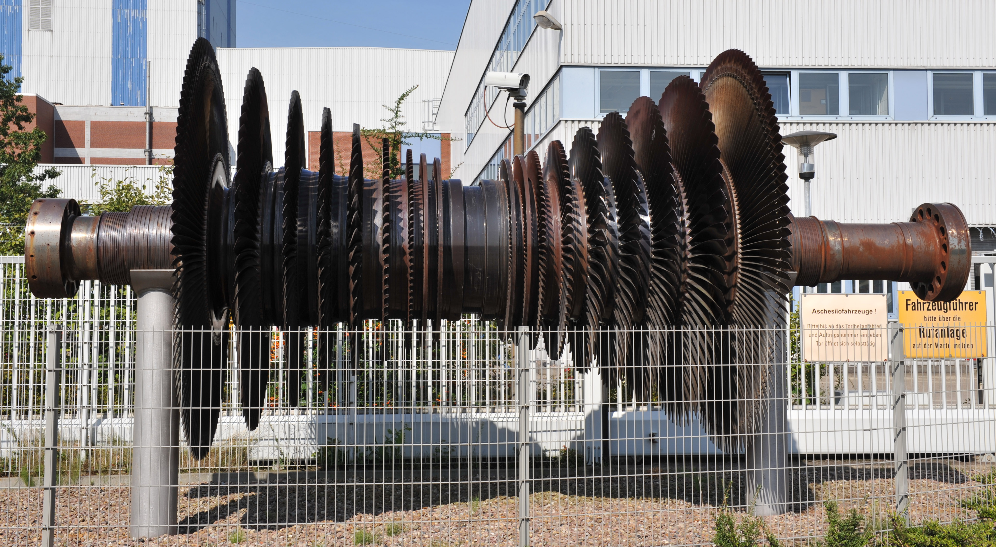 Turbine exhibited at the power plant Kraftwerk Farge